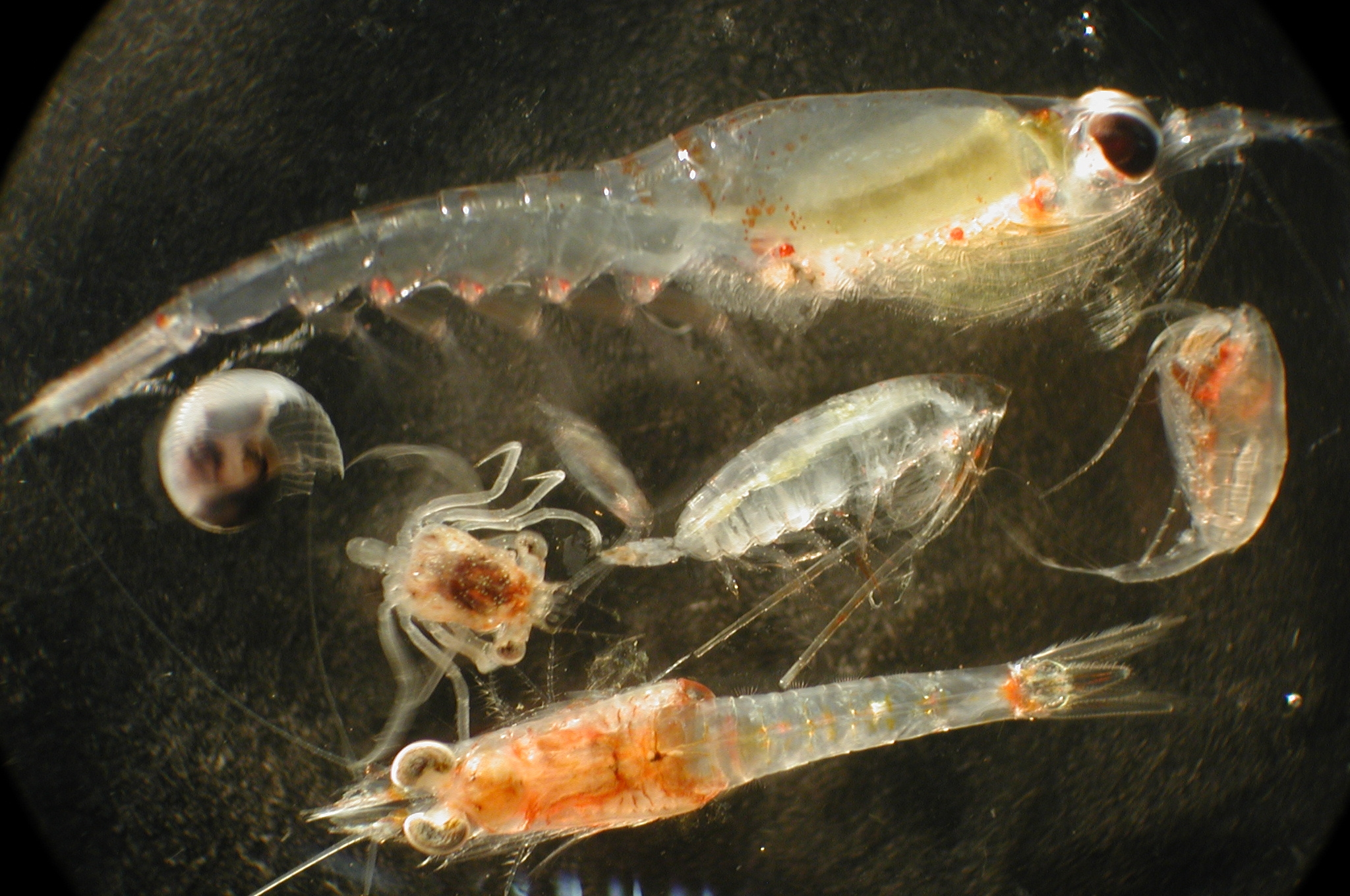 Zooplankton. An assortment of crustaceans.